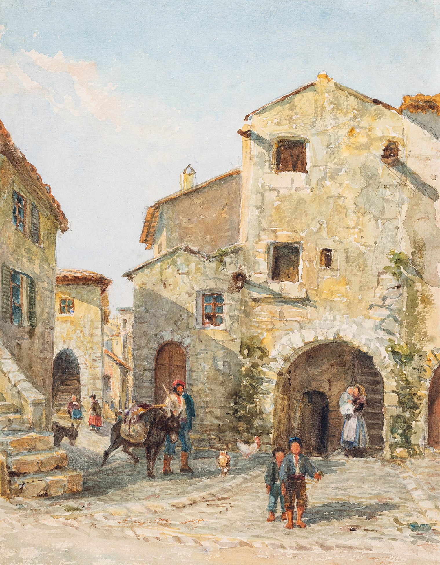 Offered for sale by Abbott and Holder in March 2020 when it was described as "‘Turbia’. Watercolour. Inscribed and dated verso, 14th March, 1866. 12x9.25 inches."